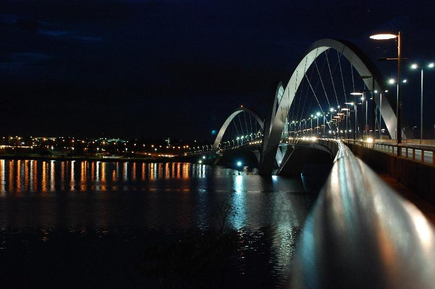 The Juscelino Kubitschek Bridge in Brasilia, Capital of Brazil.